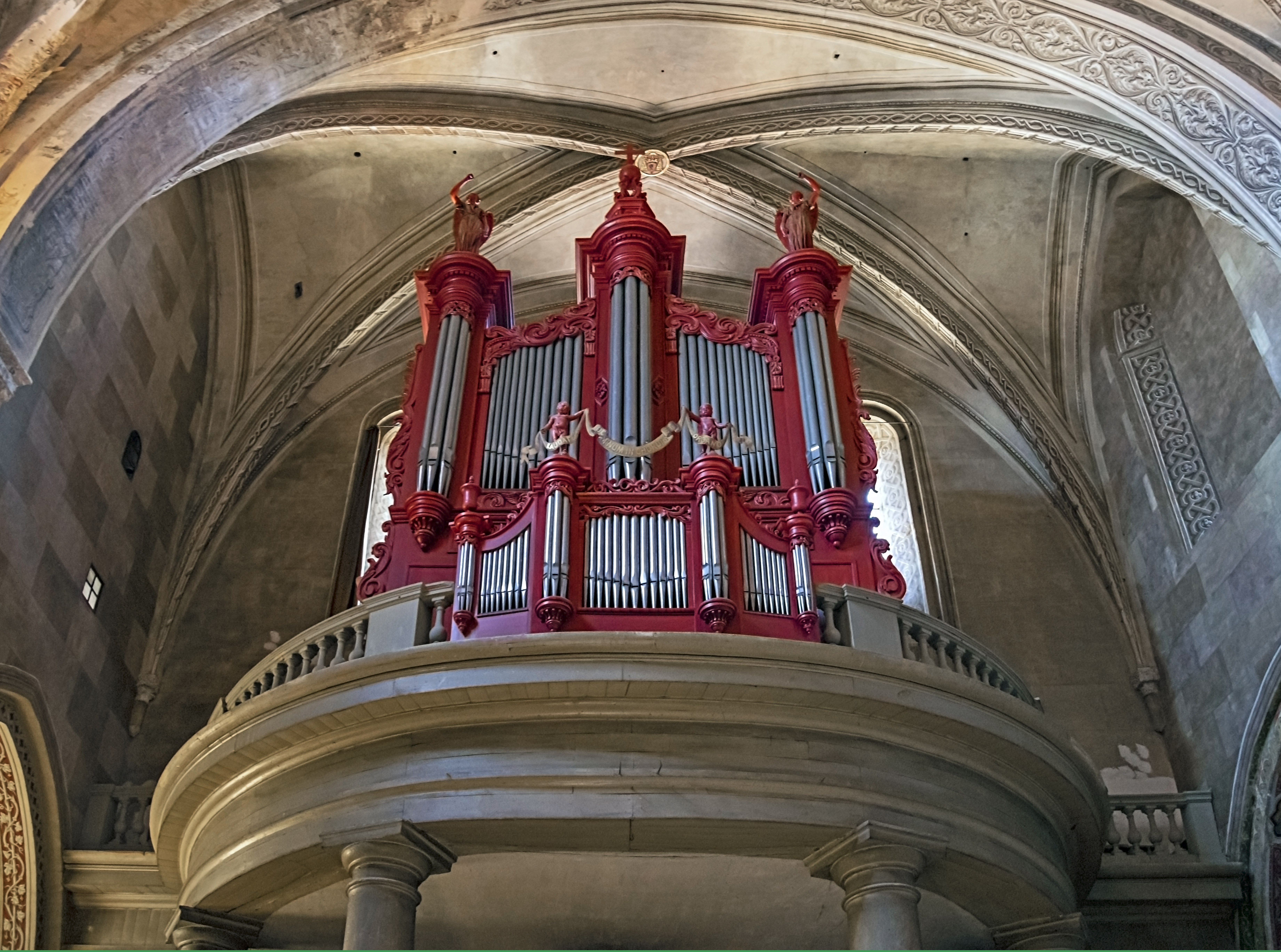 Organ of the Eglise Saint-Pierre Gaillac in the Tarn department